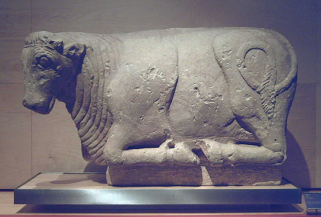 Iberian sculpture. It's an ashlar with a high-relief of a lain-down bull. It was part of a funerary monument, and it supposedly had a symbolic protecting function. It's part of the Sculptures of Osuna.